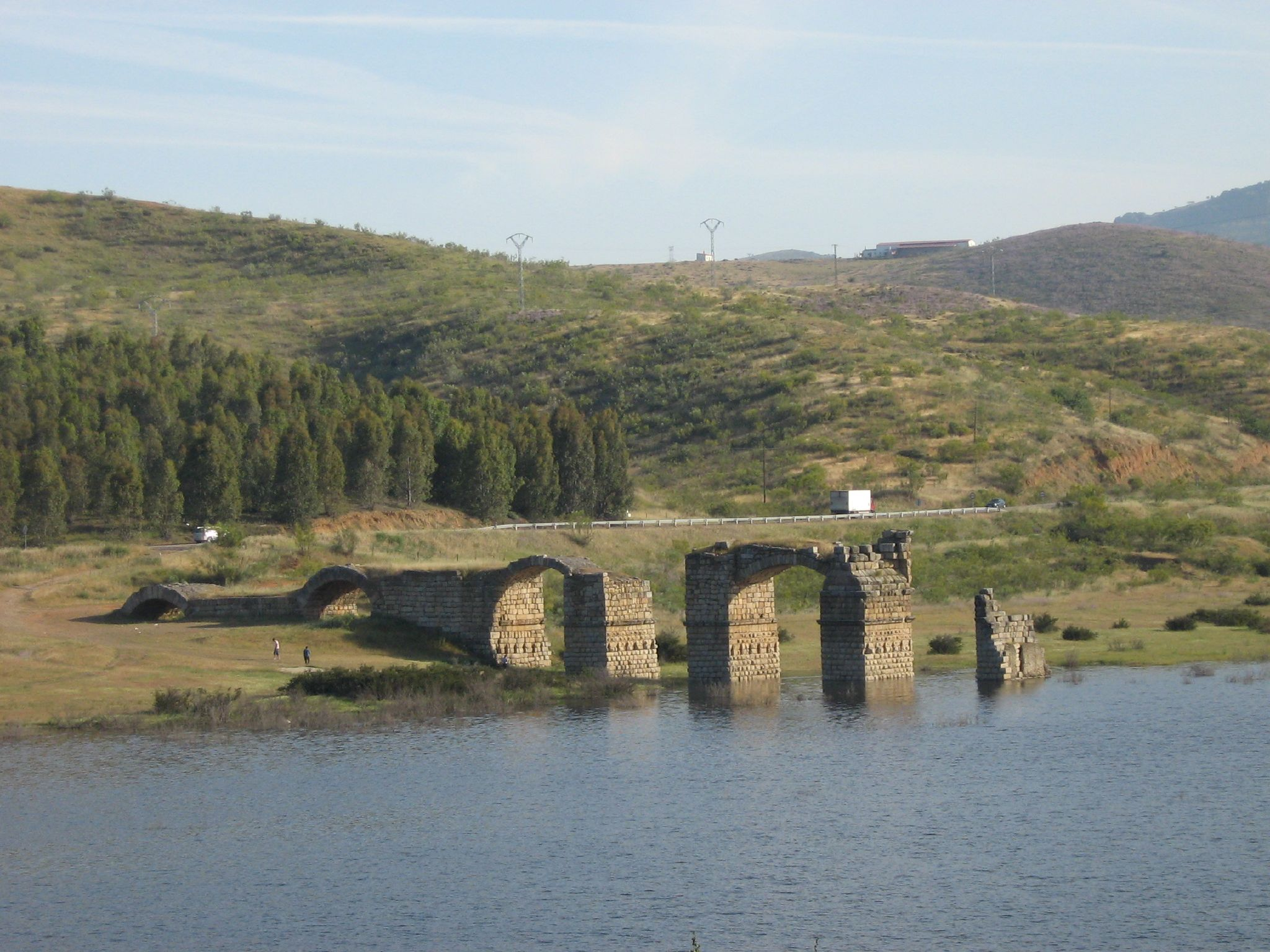 The remains of the Roman Puente de Alconétar (Alconétar Bridge), Cáceres Province, Spain. The ancient segmental arch bridge originally crossed the Tajo river near the village of Garrovillas. In 1972, during the construction of the Alcántara reservoir, the structure was moved 6 km upstream to its current location.